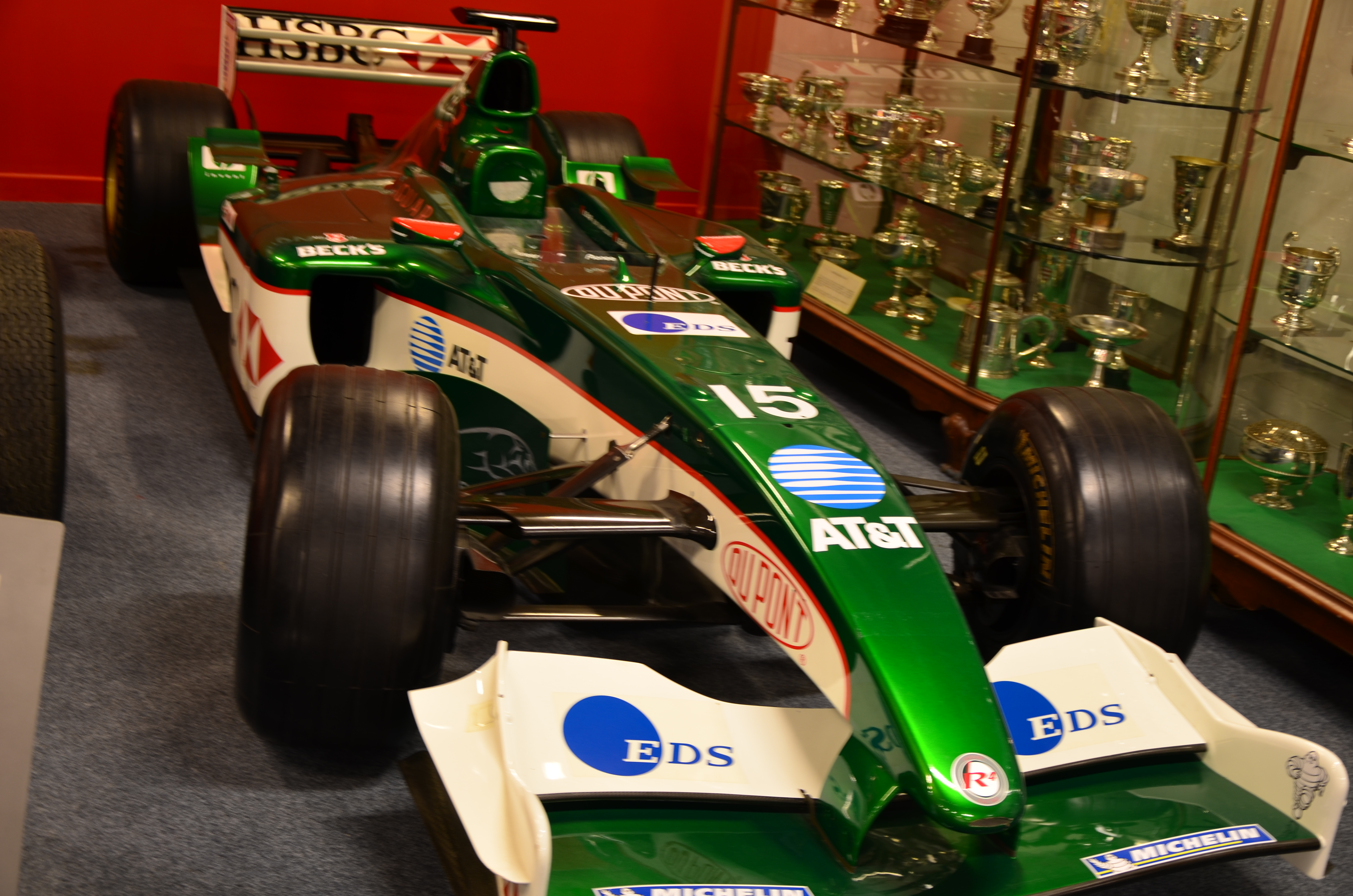 Justin Wilson's Jaguar F1 car and trophies